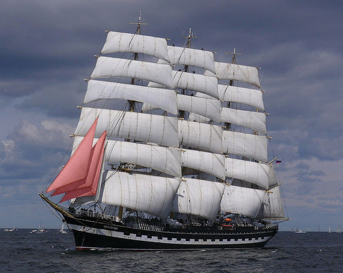 Krusenstern bowsprit jibs